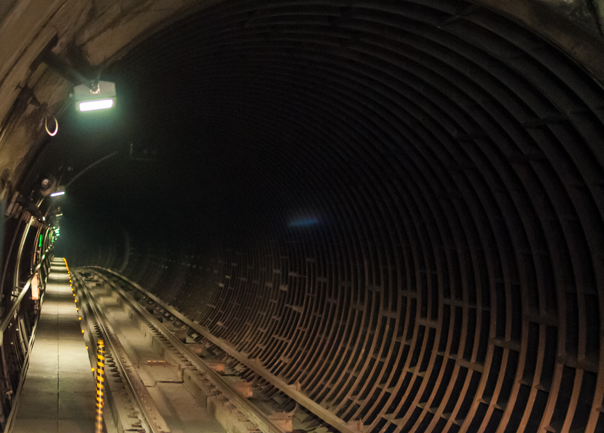 São_Paulo_Metro